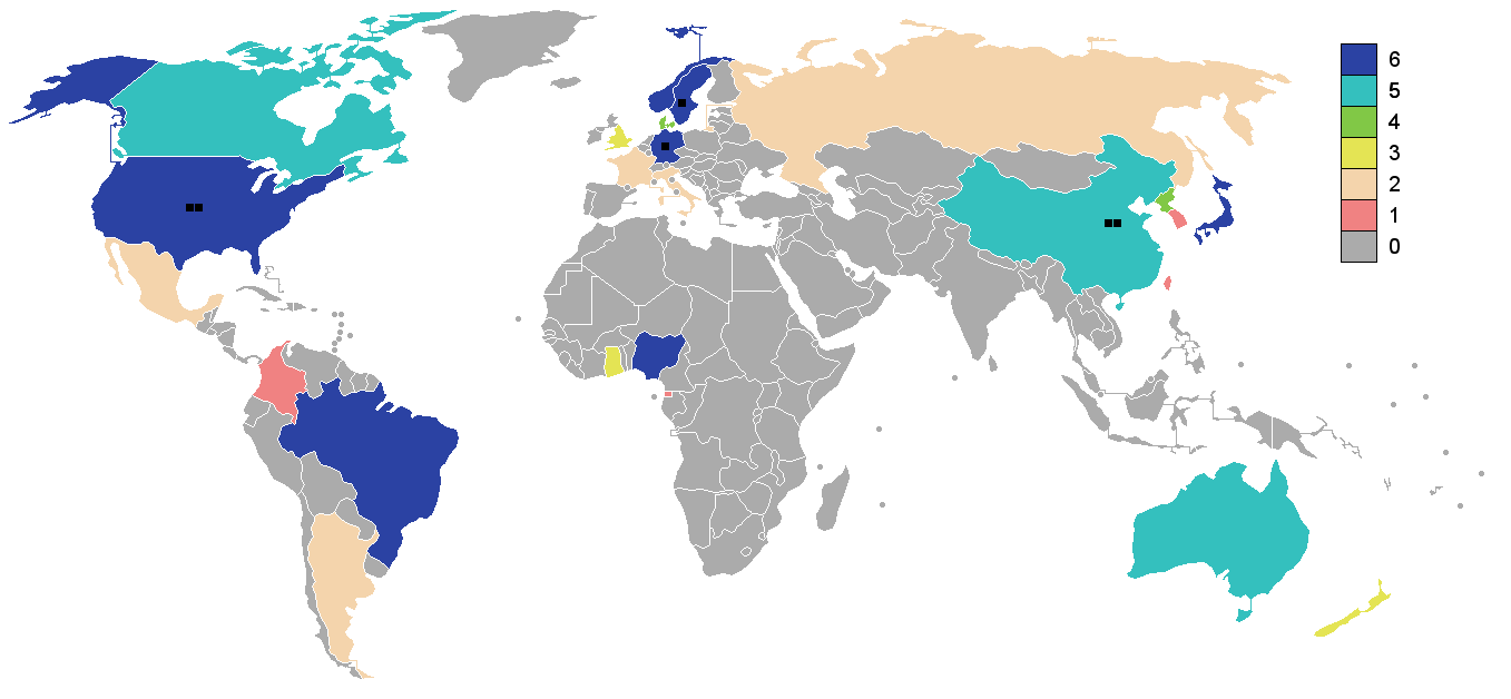 FIFA Women's World Cup – Number of appearances and host - 2011